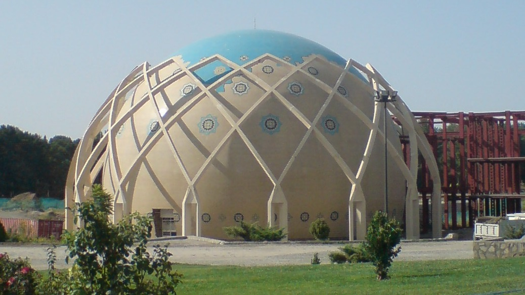 Planetarium of Omar Khayyam